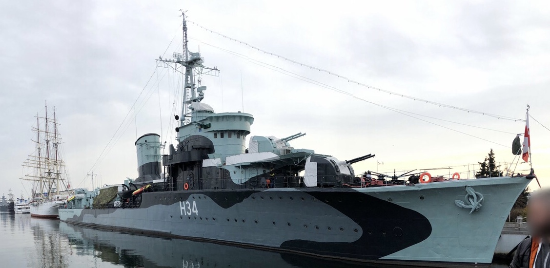 ORP Błyskawica przy kei na Molo Południowym w Gdyni podczas pikniku marynarskiego z okazji stulecia Marynarki Wojennej, 25 listopada 2018 rok